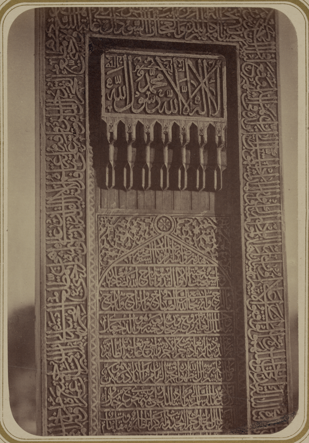 This photograph of the interior of the Khodzha Akhrar shrine in Samarkand (Uzbekistan) is from the archeological part of Turkestan Album. The six-volume photographic survey was produced in 1871-72 under the patronage of General Konstantin P. von Kaufman, the first governor-general (1867-82) of Turkestan, as the Russian Empire’s Central Asian territories were called. The album devotes special attention to Samarkand’s Islamic architectural heritage. Seen here is the tombstone at the grave of Khodzha Akhrar (1403-89), a renowned 15th-century mystic, ascetic, and adherent of Sufism who wielded great spiritual influence in Central Asia during the final decades of the Timurid dynasty. He is said to have established mosques not only in Samarkand, but also in Bukhara, Herat, and Kabul. The Khodzha Akhrar ensemble in Samarkand contained several structures, including a winter and a summer mosque, as well as a cemetery. Located in the mosque, this grave marker is framed by a carved inscription band in elaborate cursive Perso-Arabic script. The central part of the surface is recessed and consists of further inscriptions framed by a pointed arch decorated with botanical figures and surmounted with an eight-pointed star. Above the arch point is a corbelled “stalactite” element supporting the main sacred inscription. The Khodzha Akhrar shrine was an important pilgrimage site. Inscriptions; Islamic architecture; Mosques; Photographic surveys; Sepulchral monuments; Tombs